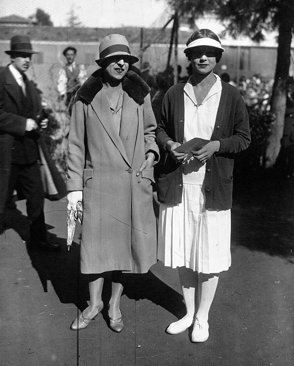 Tennis players Suzanne Lenglen and Helen Wills in Cannes in 1926.